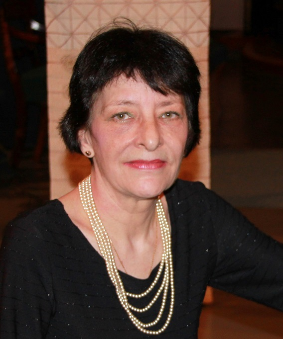 Photo of Malgorzata Jaworska